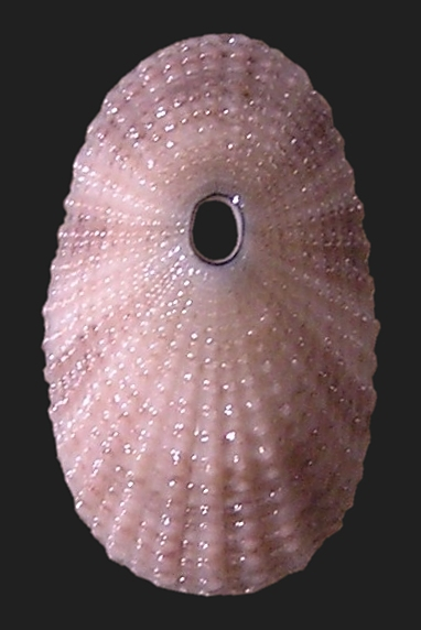 Lucapina suffusa Reeve, 1850, a keyhole limpet from the family Fissurellidae; Dominican Republic